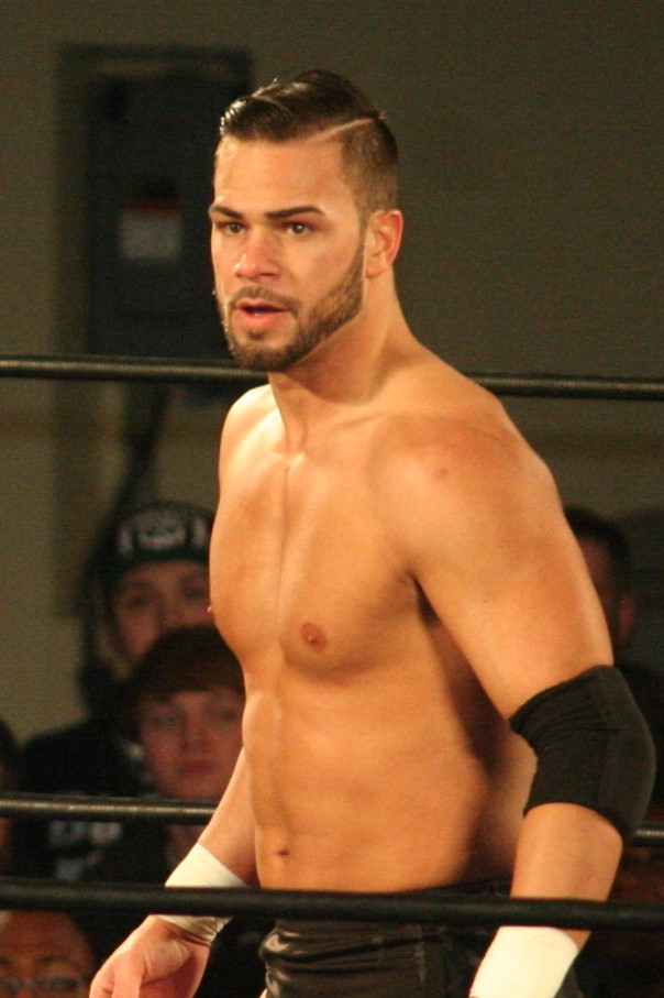 Flip Gordon during a match against Punishment Martinez at a Ring of Honor show in February 2017.